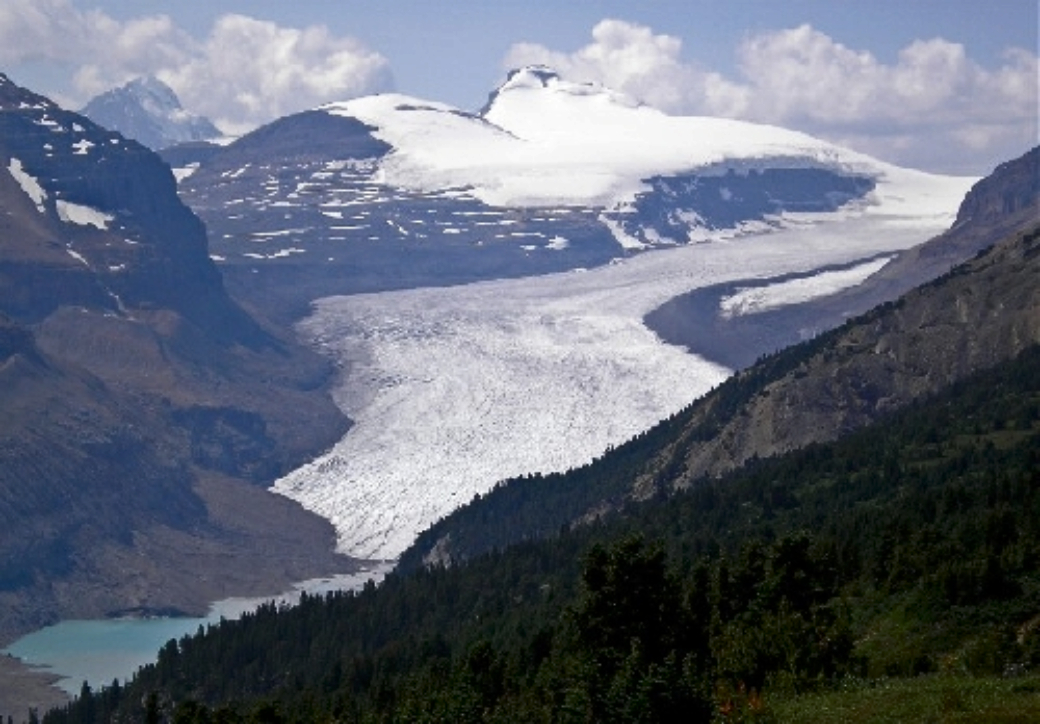 Castleguard Mountain and the Saskatchewan Glacier seen from Parker Ridge. Banff Park. Annotation for Mount Bryce.